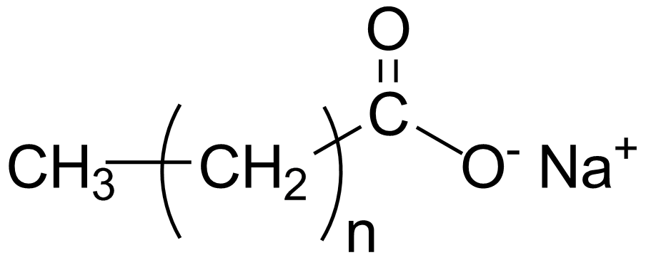 Chemical structure of sodium alkanoates (sodium cocoate, sodium tallowate, etc.)